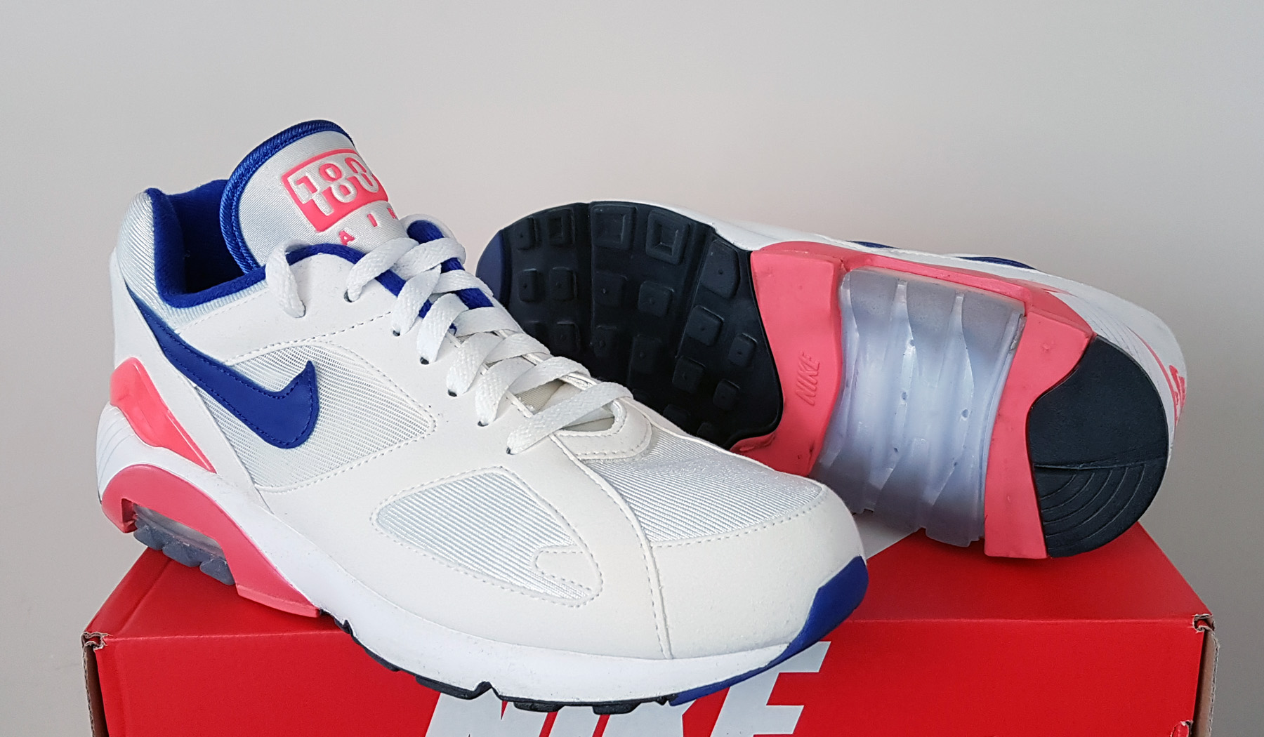 Nike Air Max 180 in the original "Ultramarine" colorway. Visibile air unit in the sole.